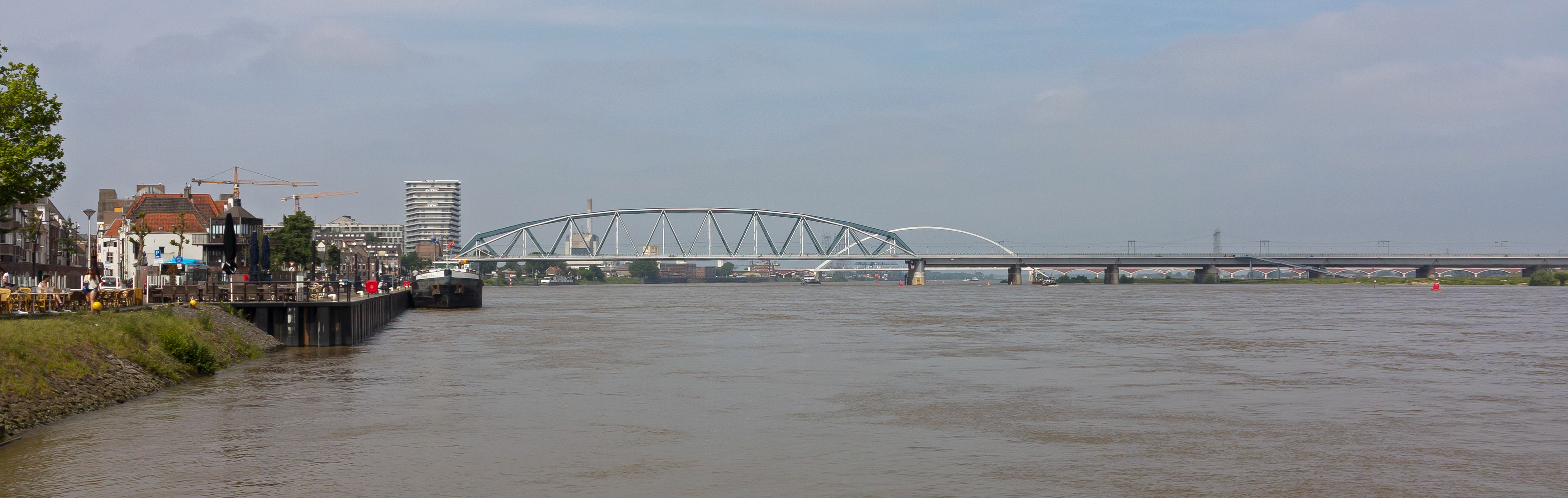 Nijmegen, the railway bridge and city bridge de Oversteek